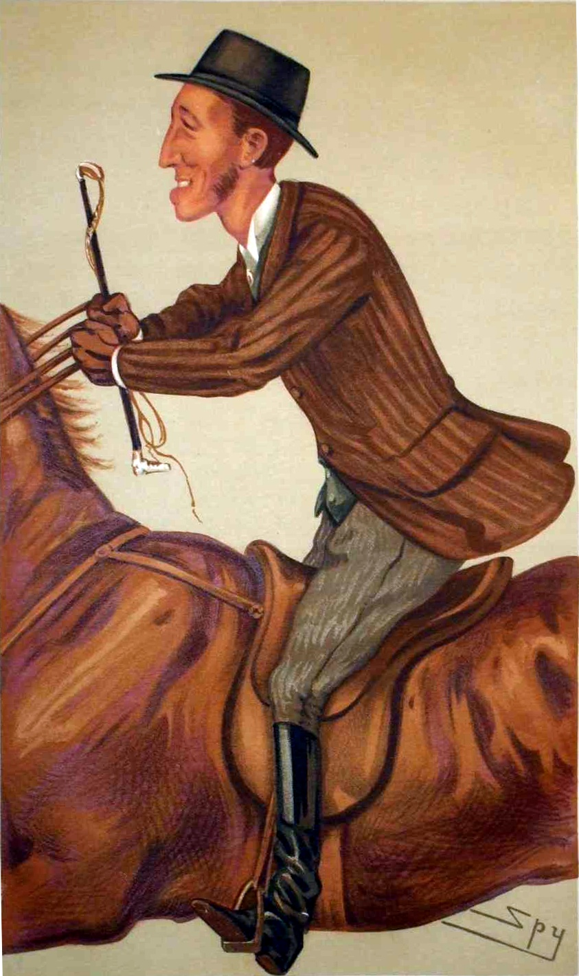 Caricature of James Lowther MP. Caption read "Jim".